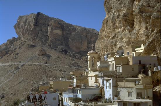 Picture of Maaloula